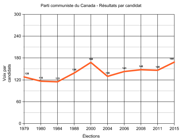 Mean results by candidates for the last 10 elections for the Communist Party of Canada